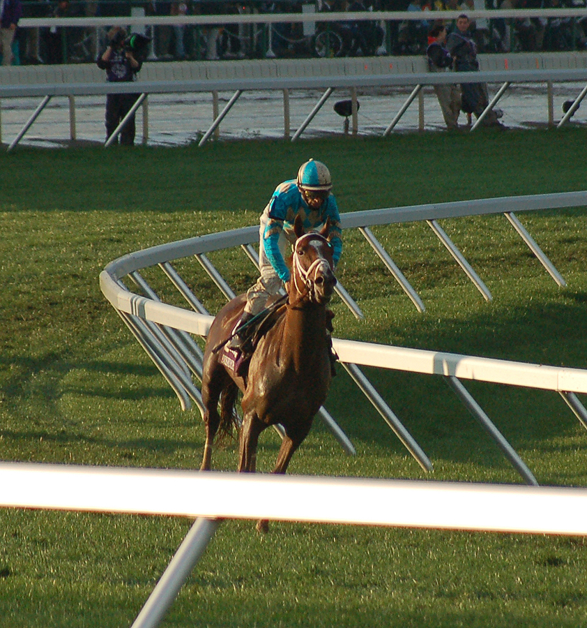 English Channel after winning the 2007 Breeders' Cup Turf at Monmouth Park.